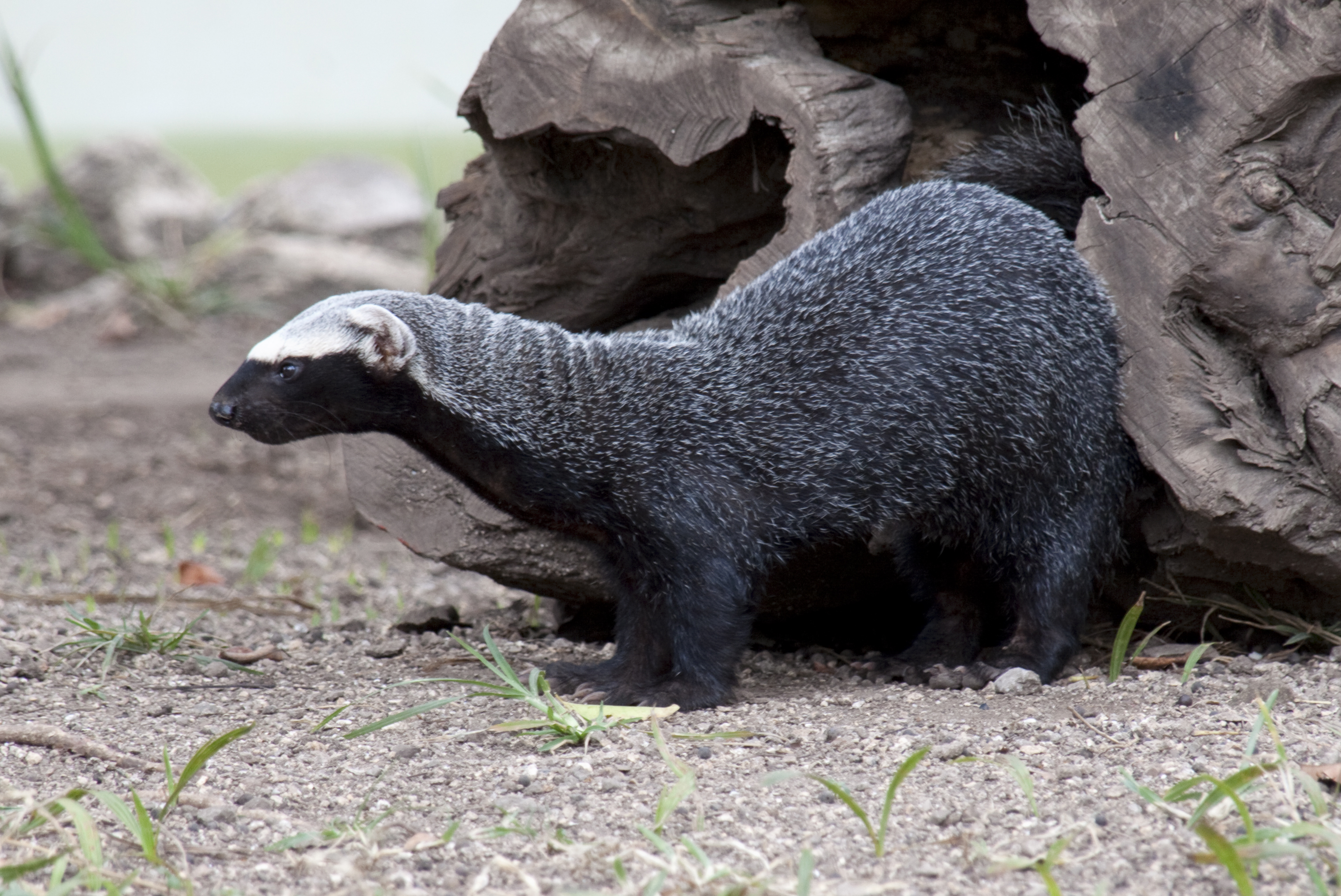 Great Grison